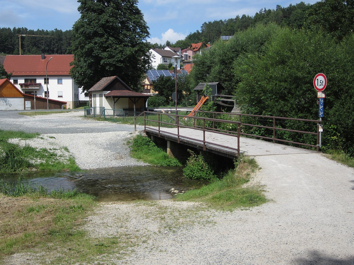 Ford crossing the Aufseß river in Aufseß, the bridge can carry only 1.5 tonnes